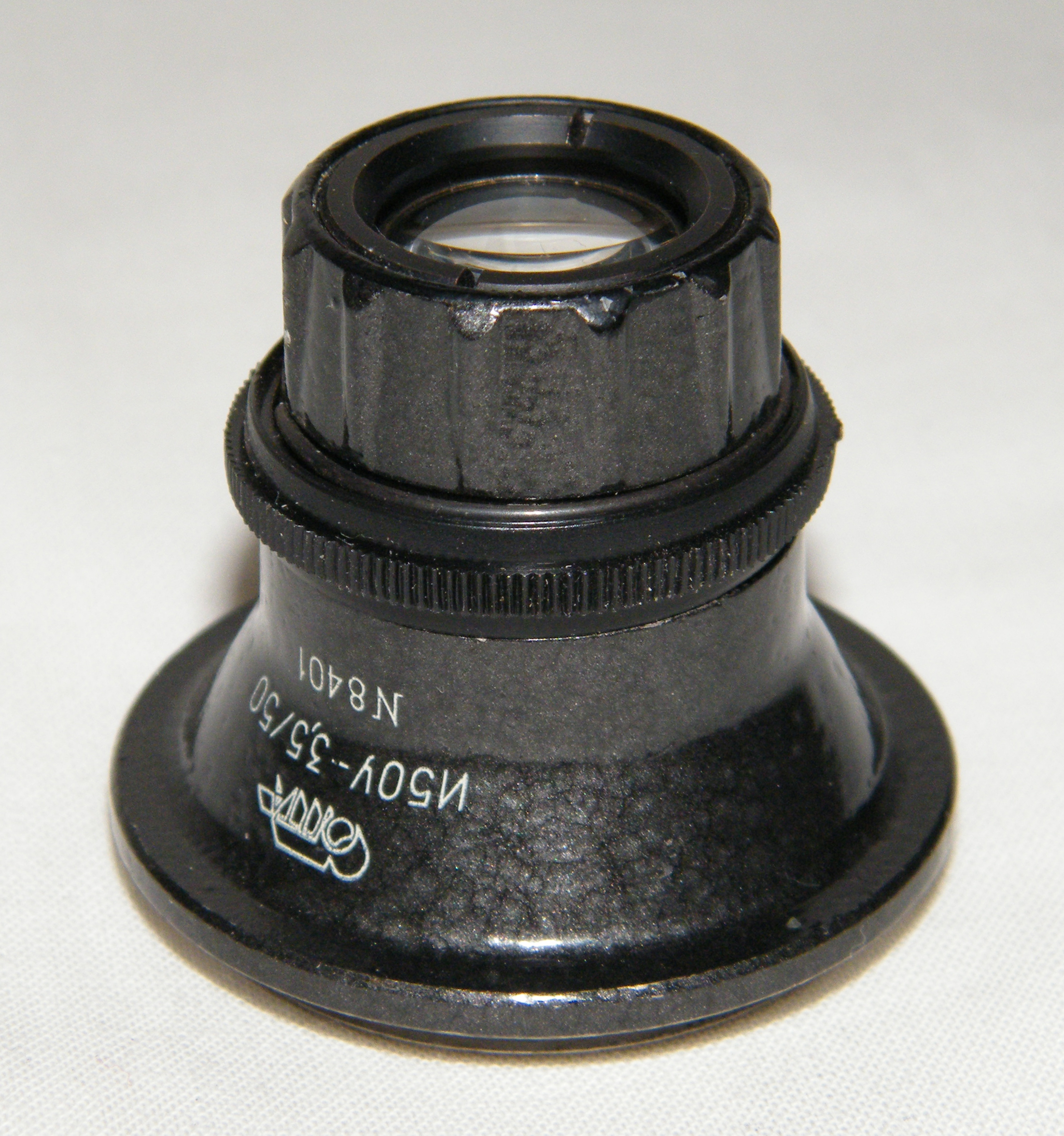 Industar 50u